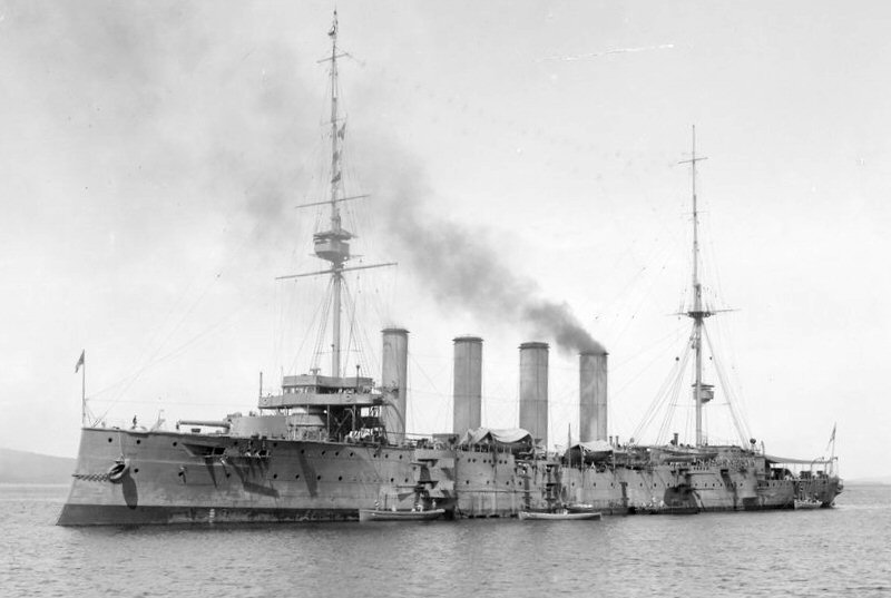 Armoured cruiser HMS Drake